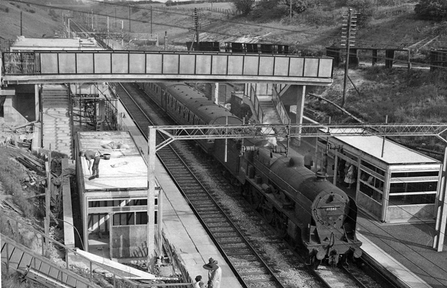 Hartford Station. View SE, towards Crewe; ex-London & North Western West Coast Main Line, Crewe - Carlisle. A Down local train is calling, hauled by a 'Patriot' Class 5XP 4-6-0. The station is being rebuilt and masts and wires for the Electrification between Crewe and Liverpool are being erected, but electric trains would not however, appear for another seven months.